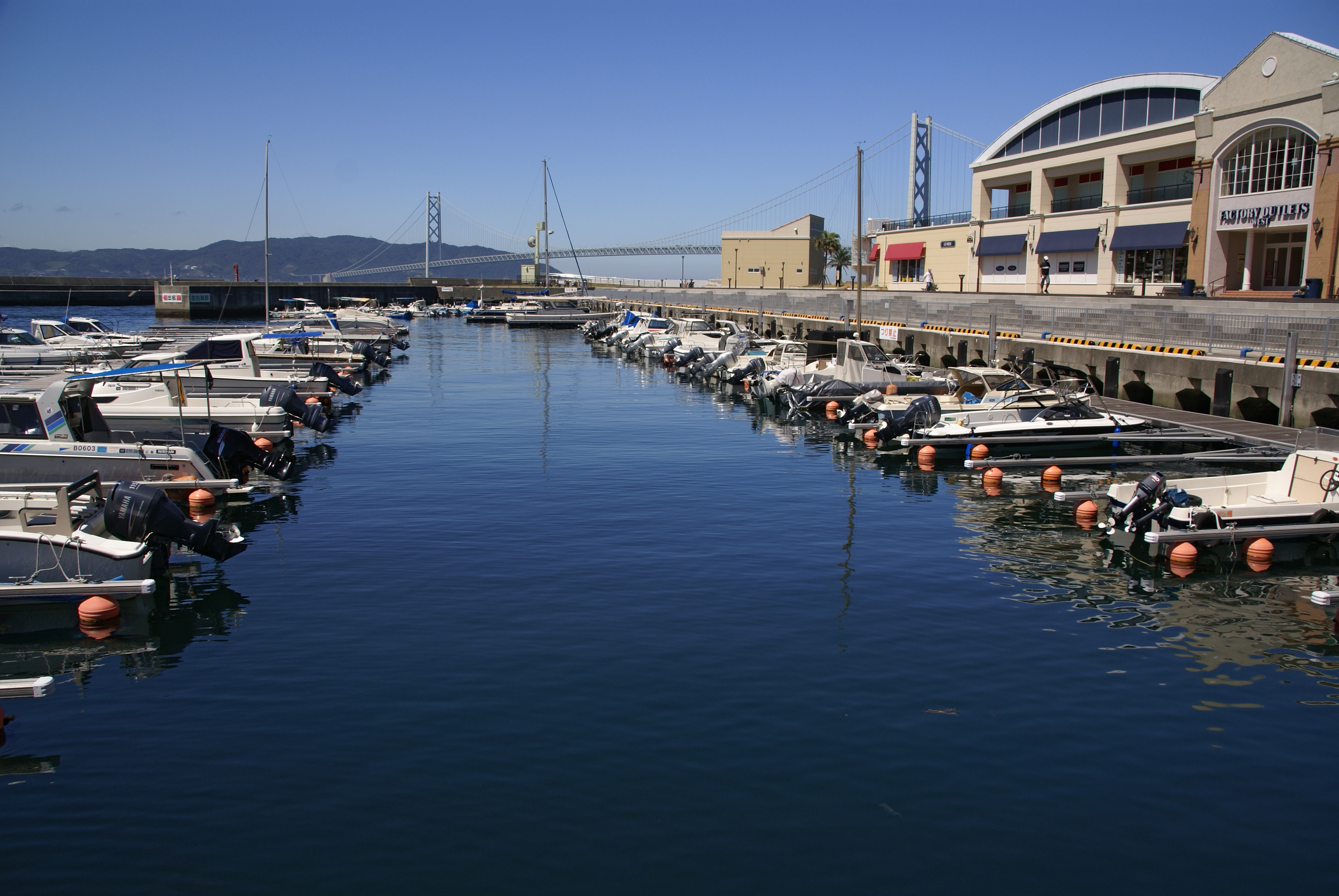 Marine pia Kobe in Kobe, Hyogo prefecture, Japan